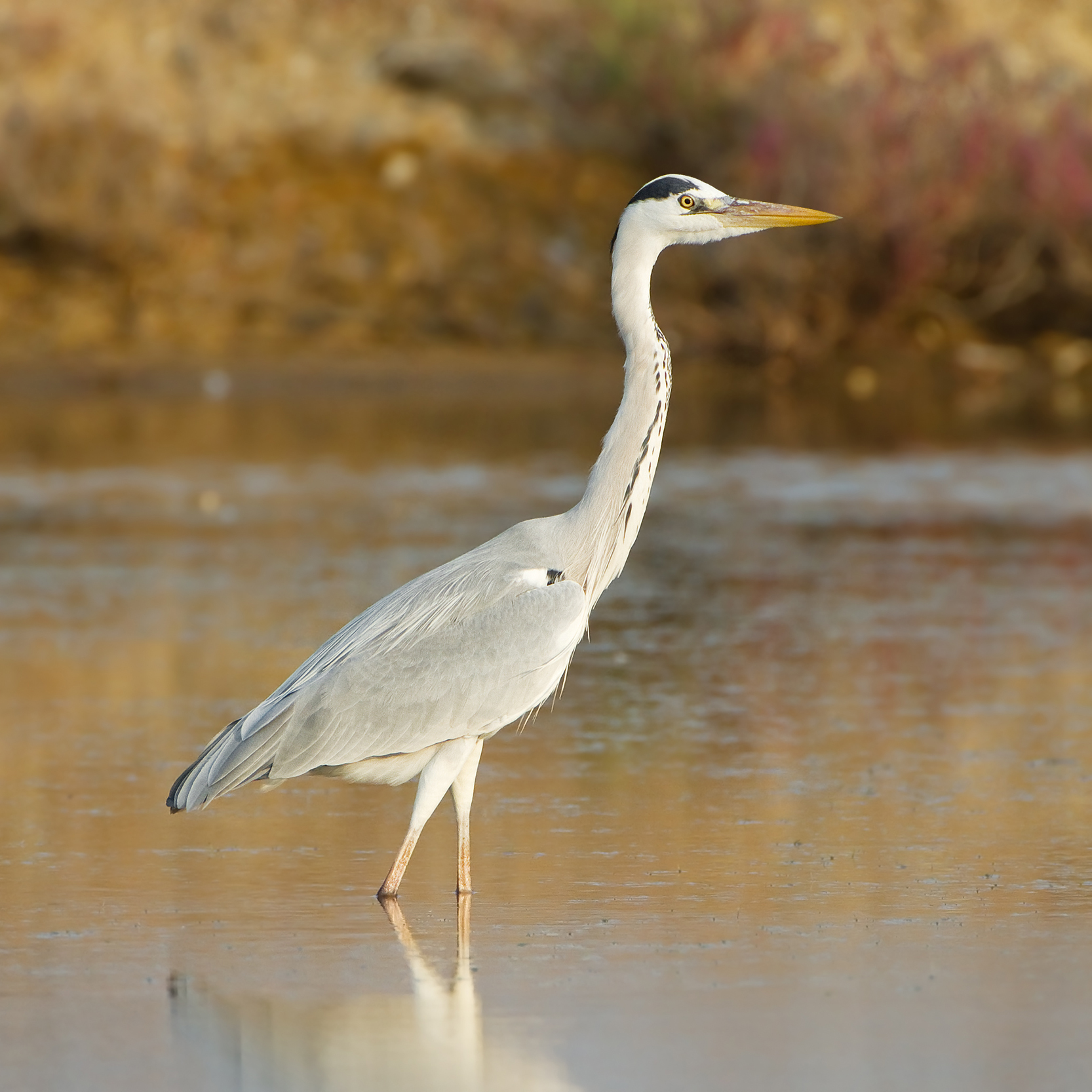 Grey Heron (Ardea cinerea), Pak Thale, Ban Laem, Phetchaburi, Thailand